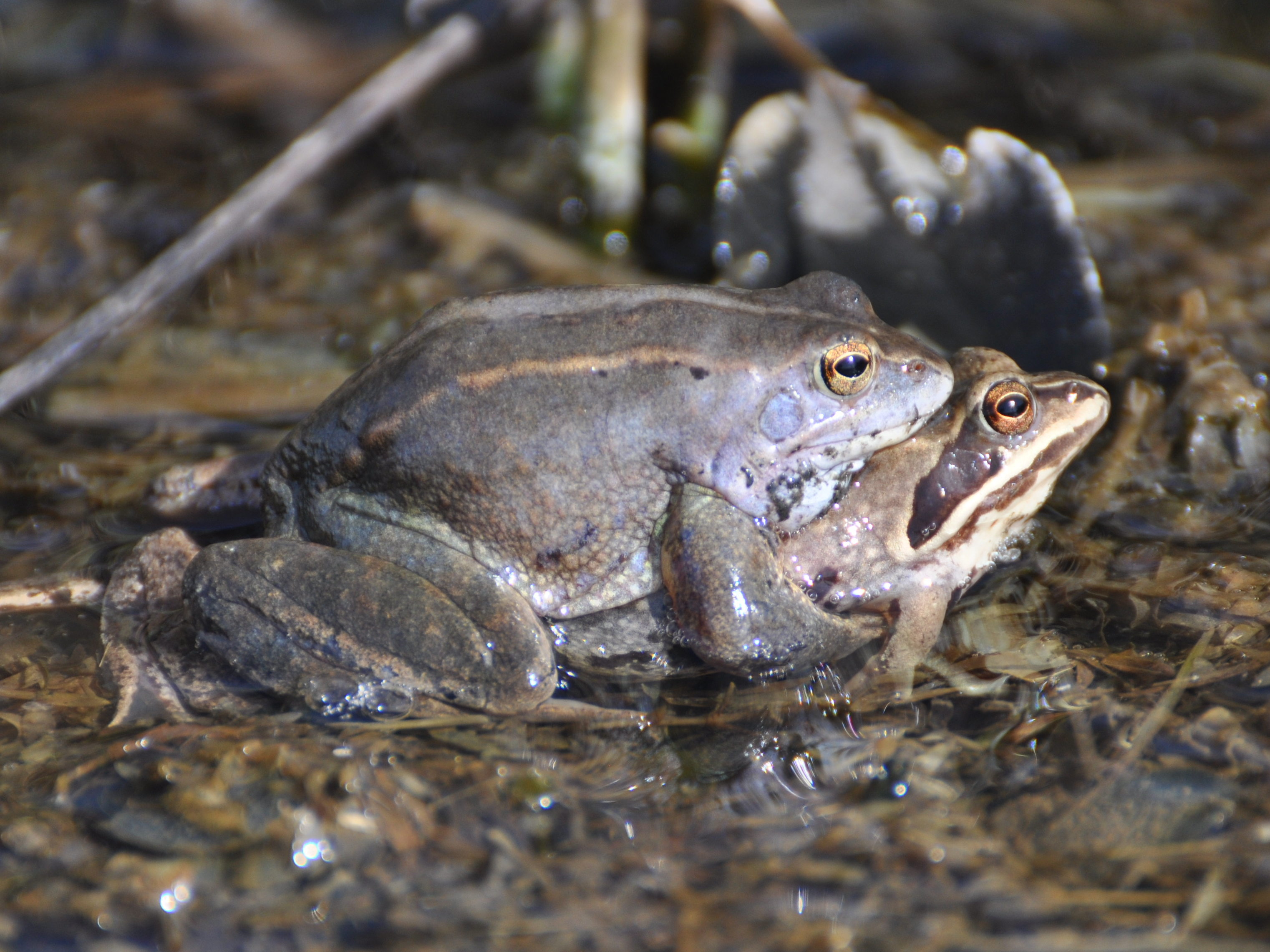 Moor frogs mating in Kirchwerder, Hamburg.